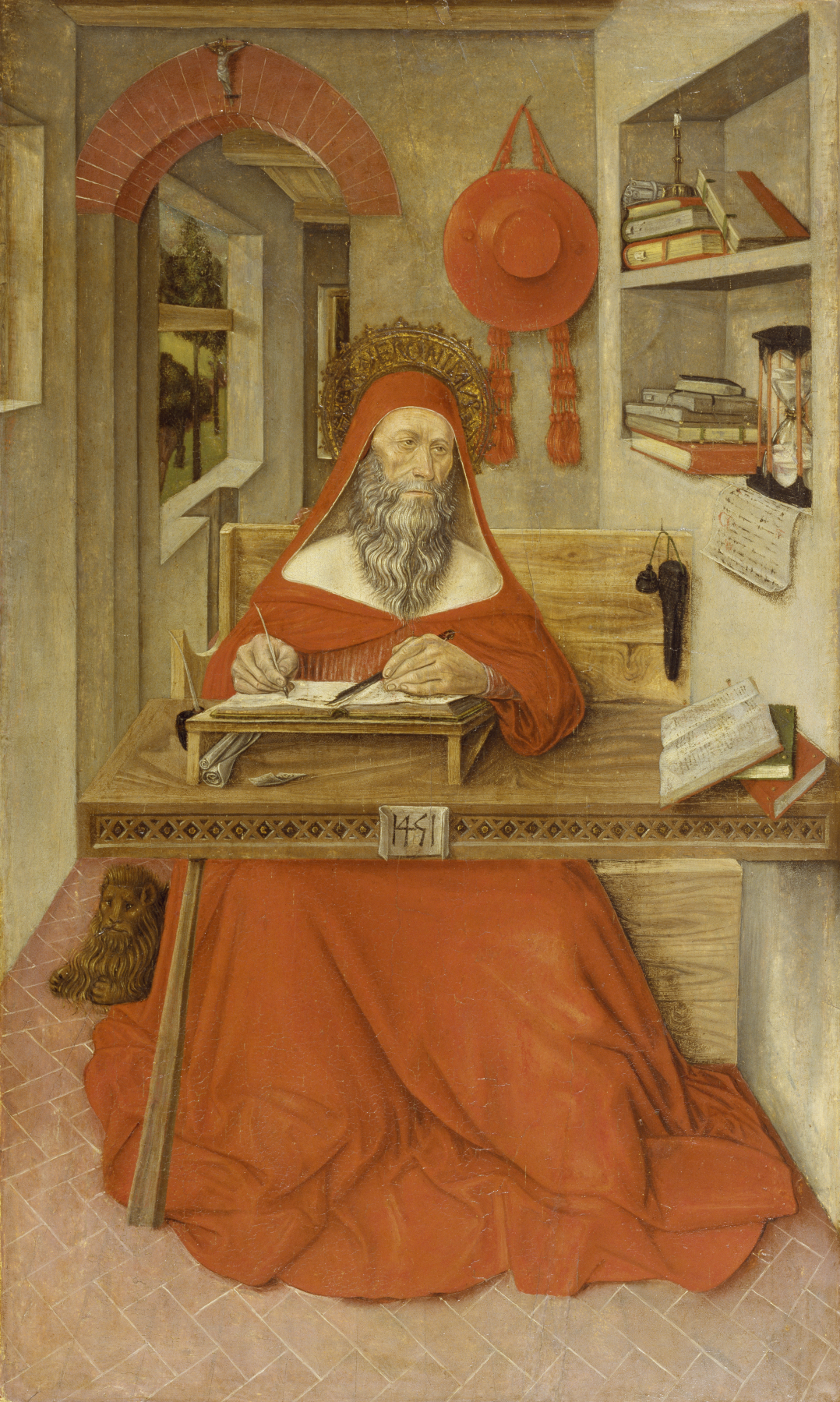 Saint Jerome (ca. 347-420) was one of the four Latin Fathers of the Church (the others being Saint Augustine, Ambrose, and Gregory the Great) and renowned for his translation of the Bible into Latin. The image of the saint in his study was popular during the 15th century, especially with scholars. The writing implements, scrolls, and manuscripts testify to Jerome's scholarly pursuits. The sandglass and dying candle allude to the passage of time and remind the viewer that life is short. According to legend, the saint removed a thorn from the paw of a wild lion, which became Jerome's companion, here shown as a household pet. Jerome was considered to be a cardinal of the Church, and a cardinal's red hat hangs prominently on the back wall. Da Fabriano's delight in realistic detail shows that the artist was one of the first in Italy to be influenced by Netherlandish painting.